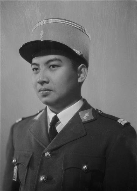 Studio photo